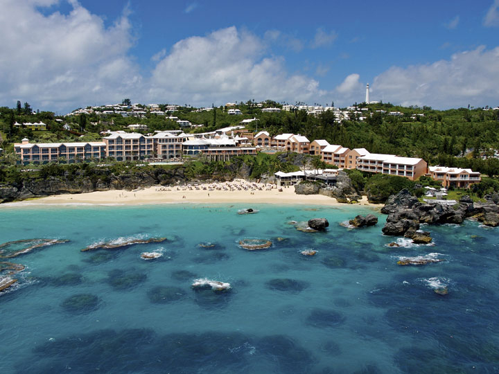 Aerial view of The Reefs Hotel & Club, one of the best Bermuda hotels on Bermuda's famous south shore.